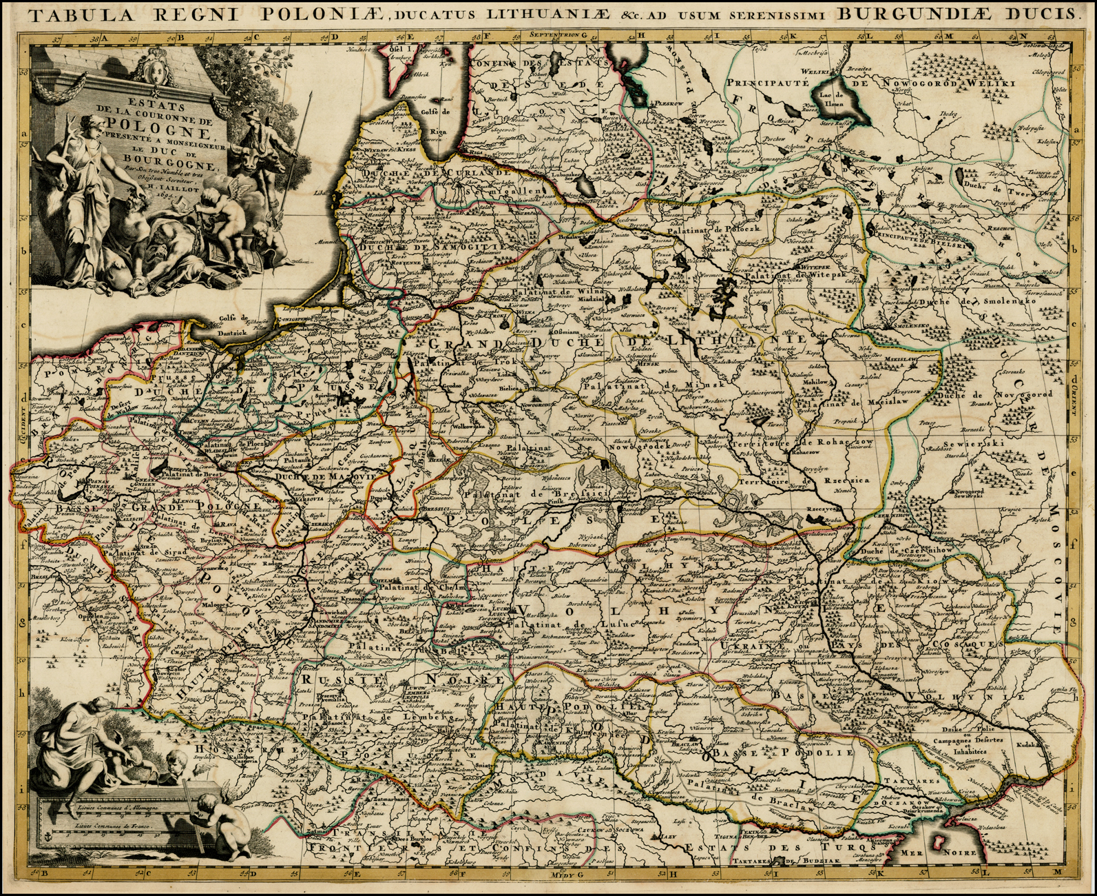 Map of Poland, Lithuania, the Ukraine and part of Russia, first issued in the "Atlas Royal a l'usage de Monseigneur le Duc de Burgogne...".